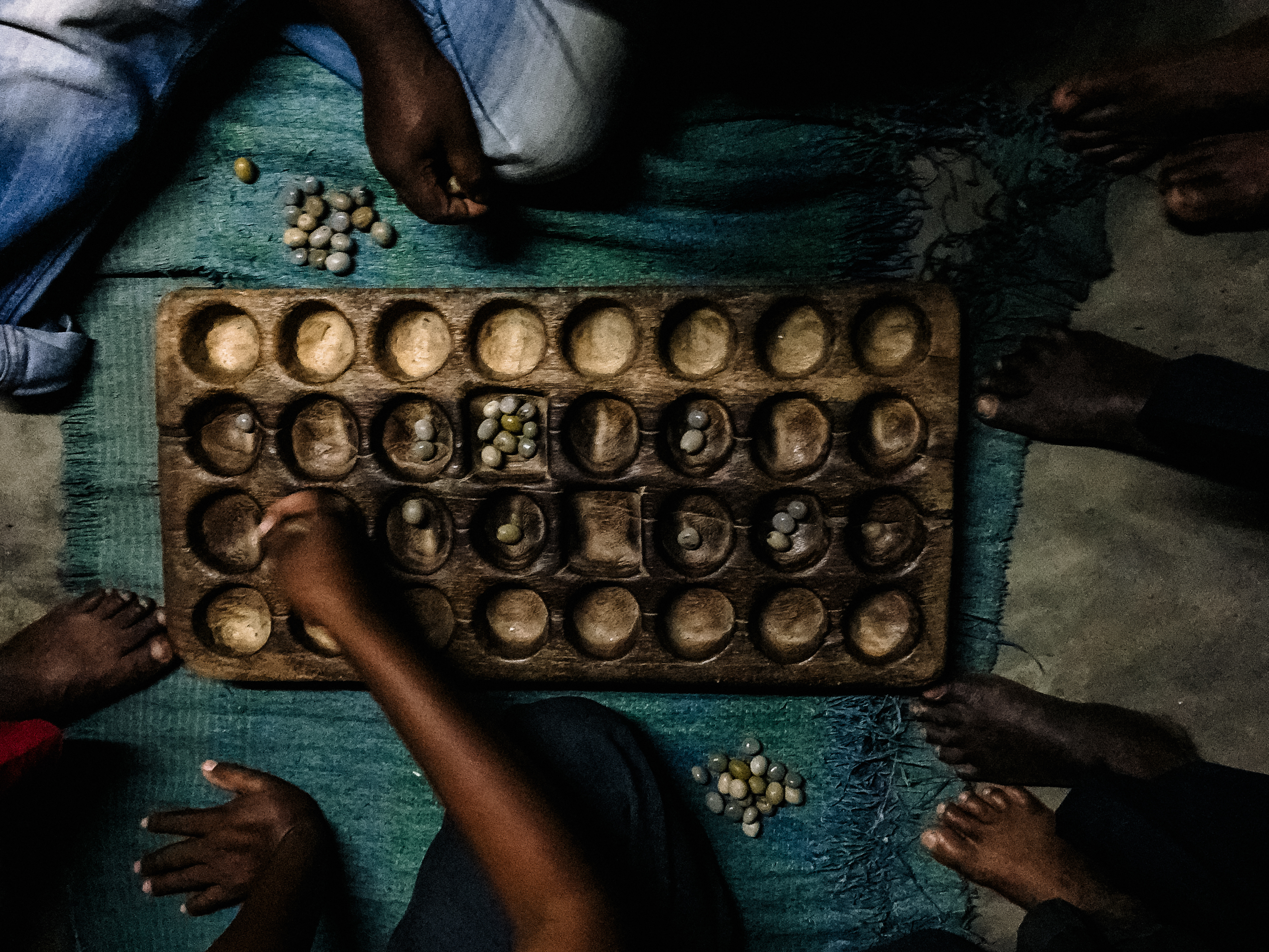 This is an image with the theme "Play" from: Tanzania